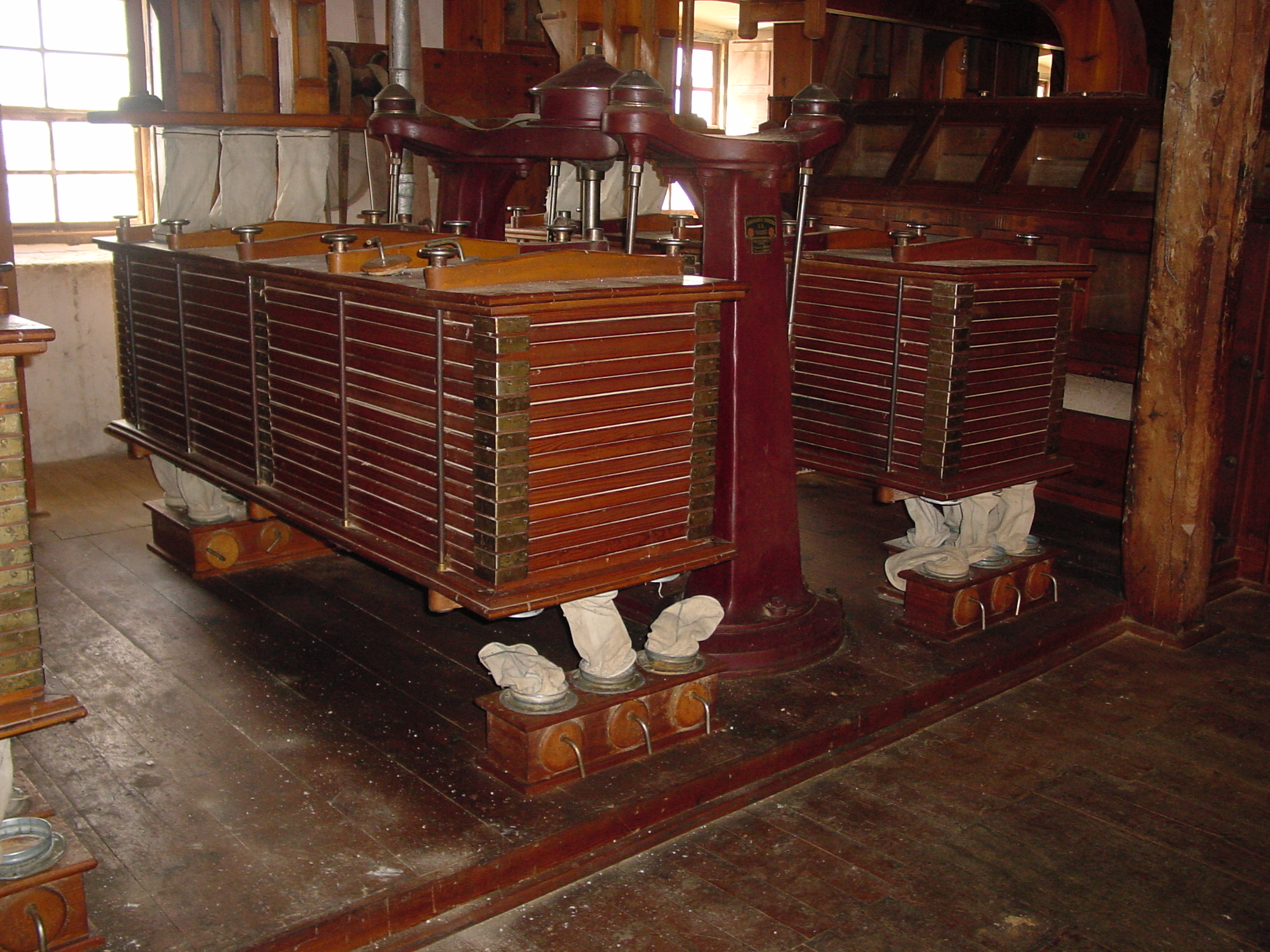 Factory of flour San Antonio, at the dock of the Channel of Castile in Medina de Rioseco, Valladolid Spain. Sieve.